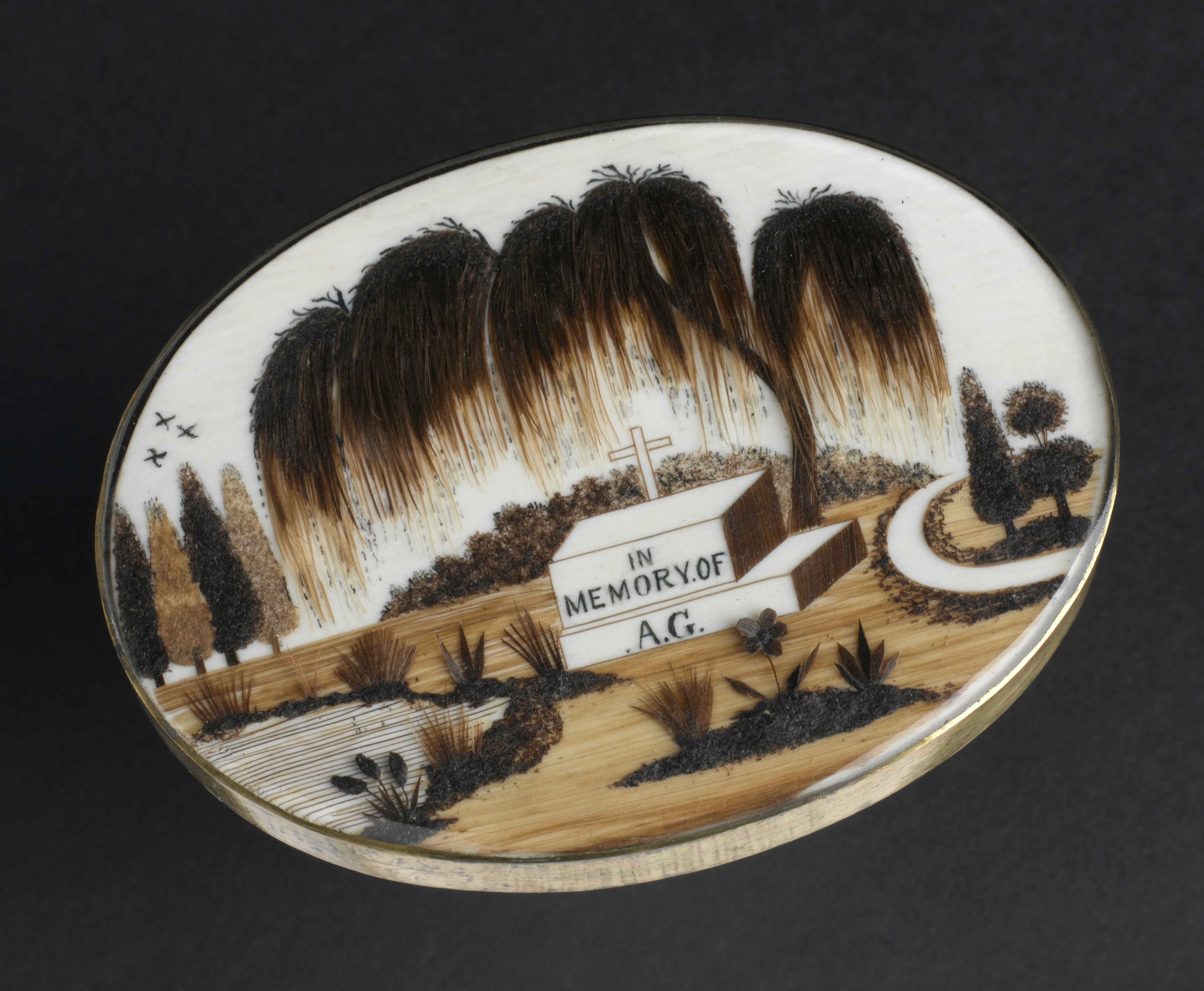 The scene of the brooch is made from human hair. It shows a graveyard scene with a weeping willow tree overhanging a gravestone inscribed: ‘IN MEMORY OF A.G.’ Jewellery such as this is called memento mori, a reminder of death. This is because the hair is probably from a departed loved one. Such ‘hairwork’ was a popular craft and pastime in 18th and 19th century Europe. Women in Victorian Britain were permitted to wear hairwork jewellery in the ‘second stage’ of mourning. This began a year and a day after the loved one’s death. maker: Unknown maker Place made: Europe Medical Photographic Library Keywords: human hair; memento mori; brooch